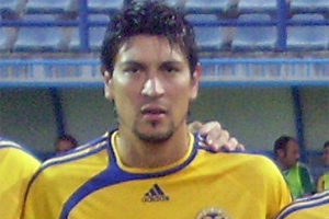 Picture of Julio Alcorsé.